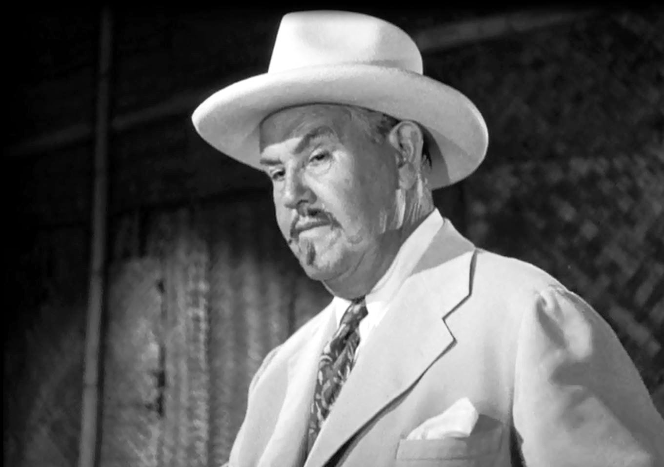 Low resolution screenshot of Sidney Toler as Charlie Chan from the American film Dangerous Money (1946). The film is in the public domain due to the omission of a valid copyright notice on its original prints.